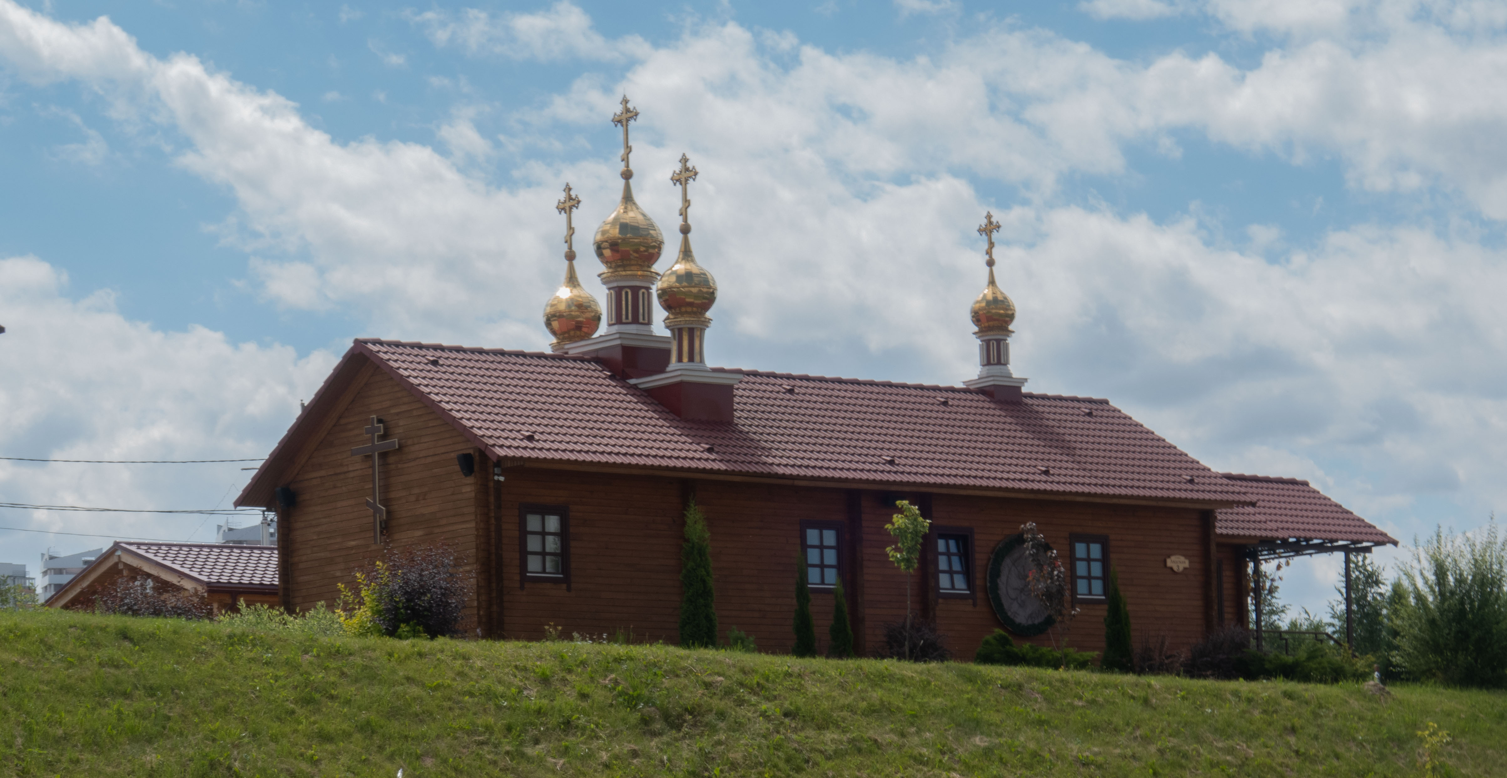 Orthodox Church of Saint Nicholas of Japan. Minsk, Belarus